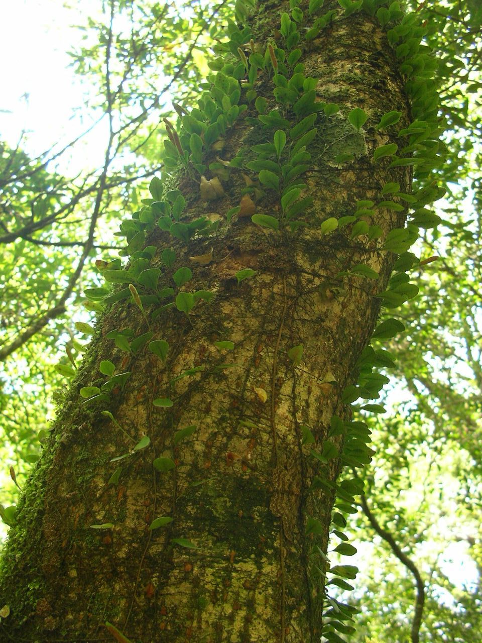 Lemmaphyllum microphyllum in Shiratani Unsuikyo, Yakushima